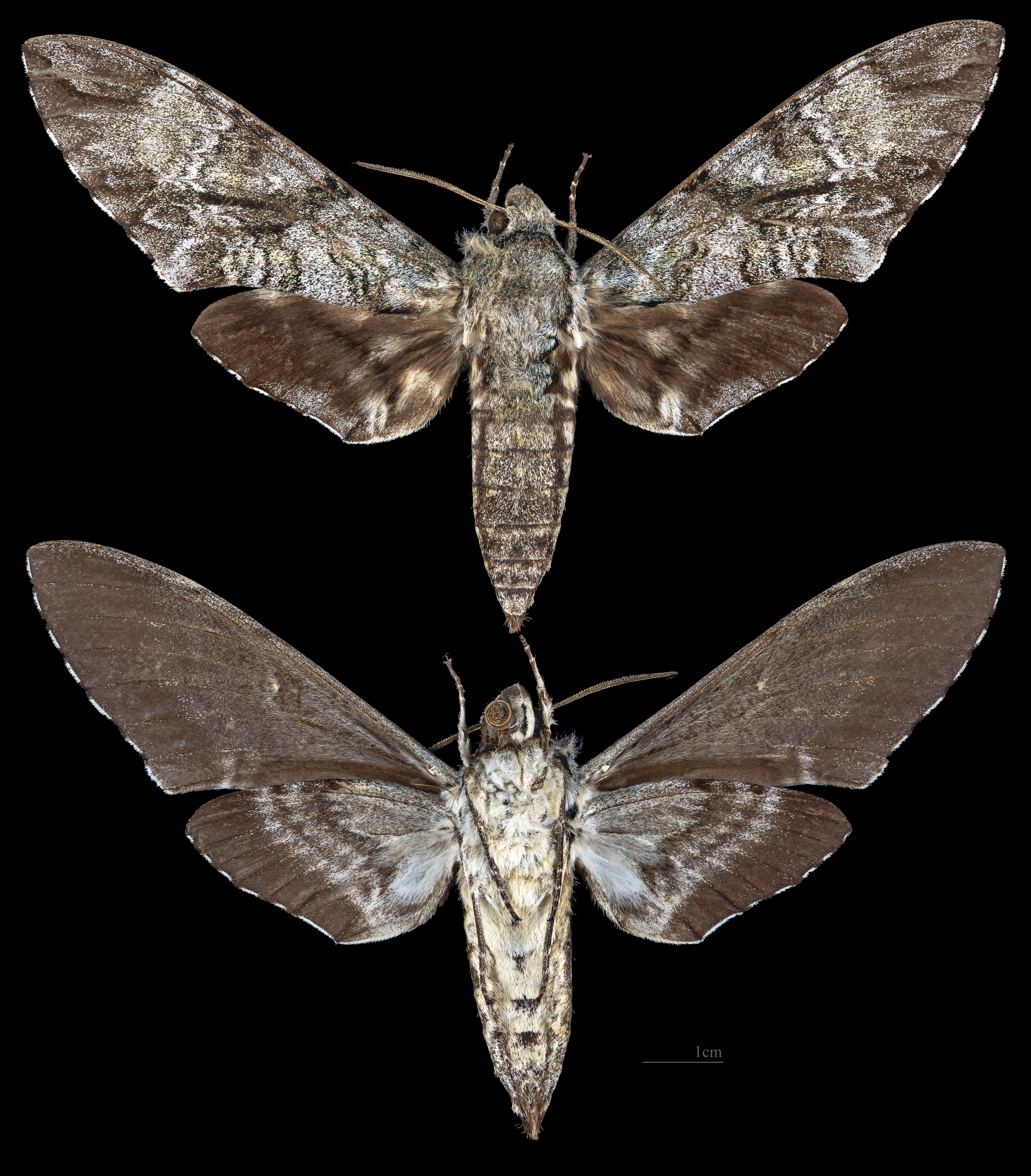 Manduca barnesi - Two views of same specimen Collection of the Mathematician Laurent Schwartz